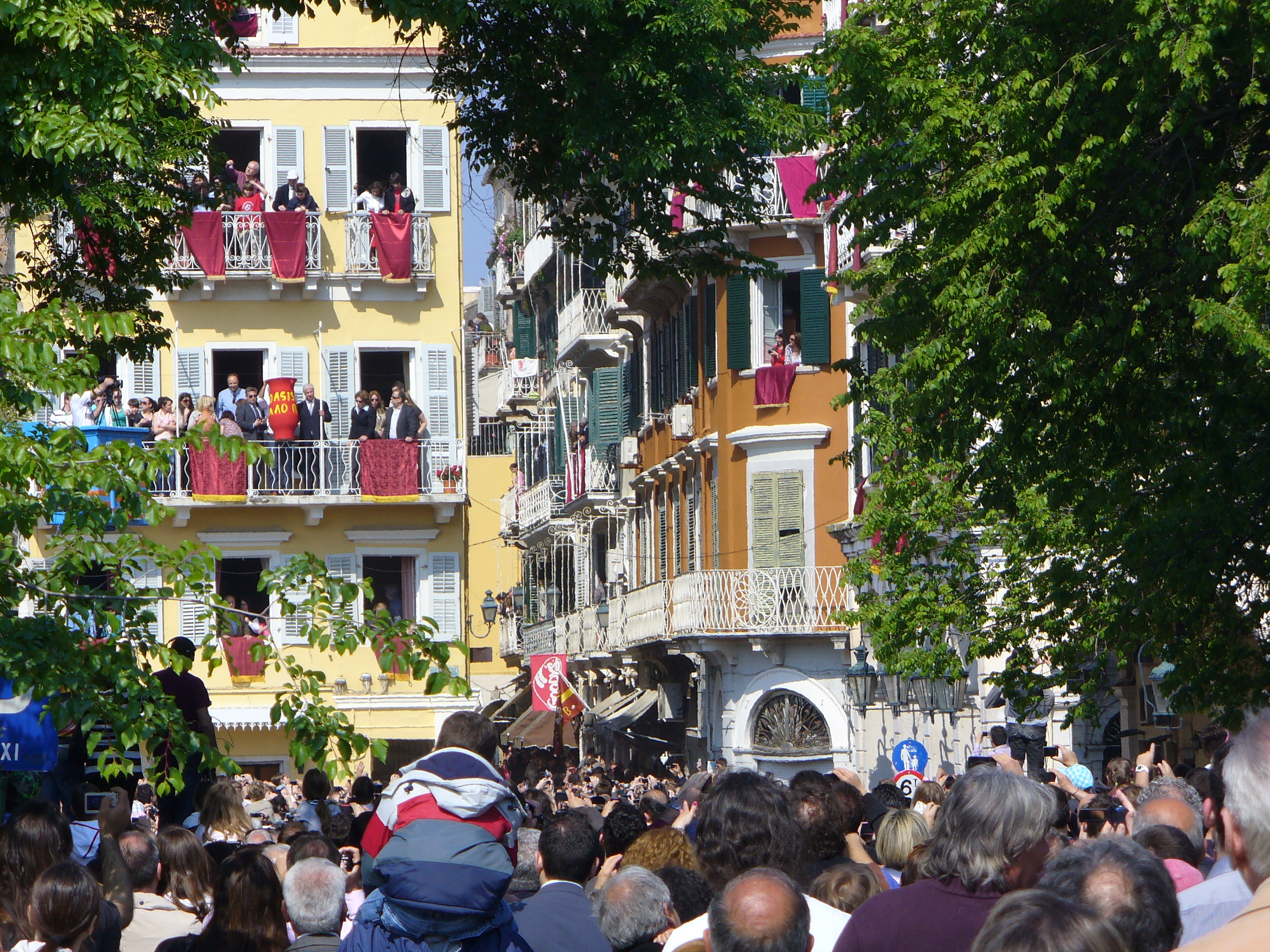 Easter in Corfu 2011